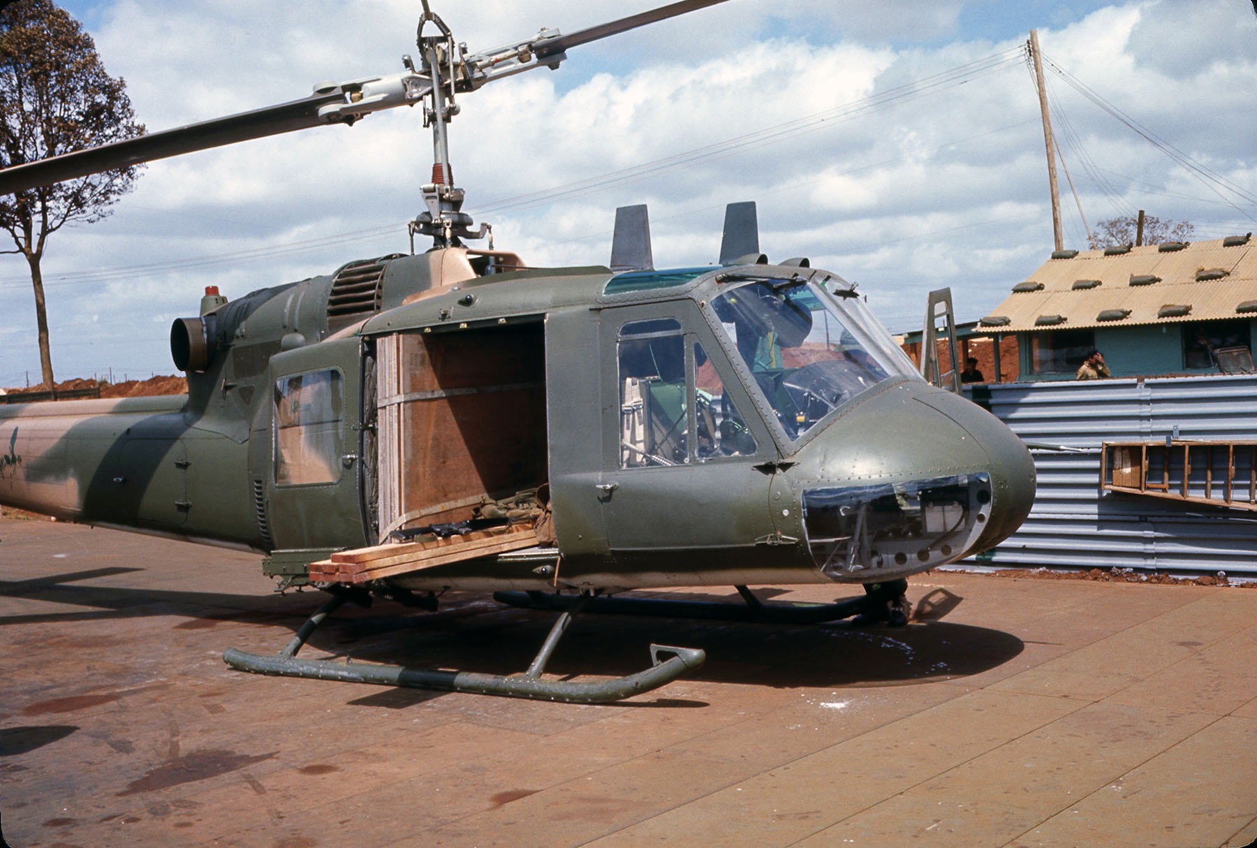 A U.S. Air Force UH-1P Huey from the 20th Special Operations Squadron Green Hornets at the forward operation location at Duc Lap, South Vietnam. So-called "Pony Express" missions carried just about anything to support the secret missions and radar sites in Laos. This helicopter is hauling lumber and plywood sheets.